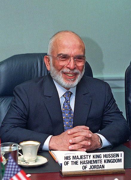 King Hussein I, of the Hashemite Kingdom of Jordan, at a meeting with US Secretary of Defense William S. Cohen in the Pentagon